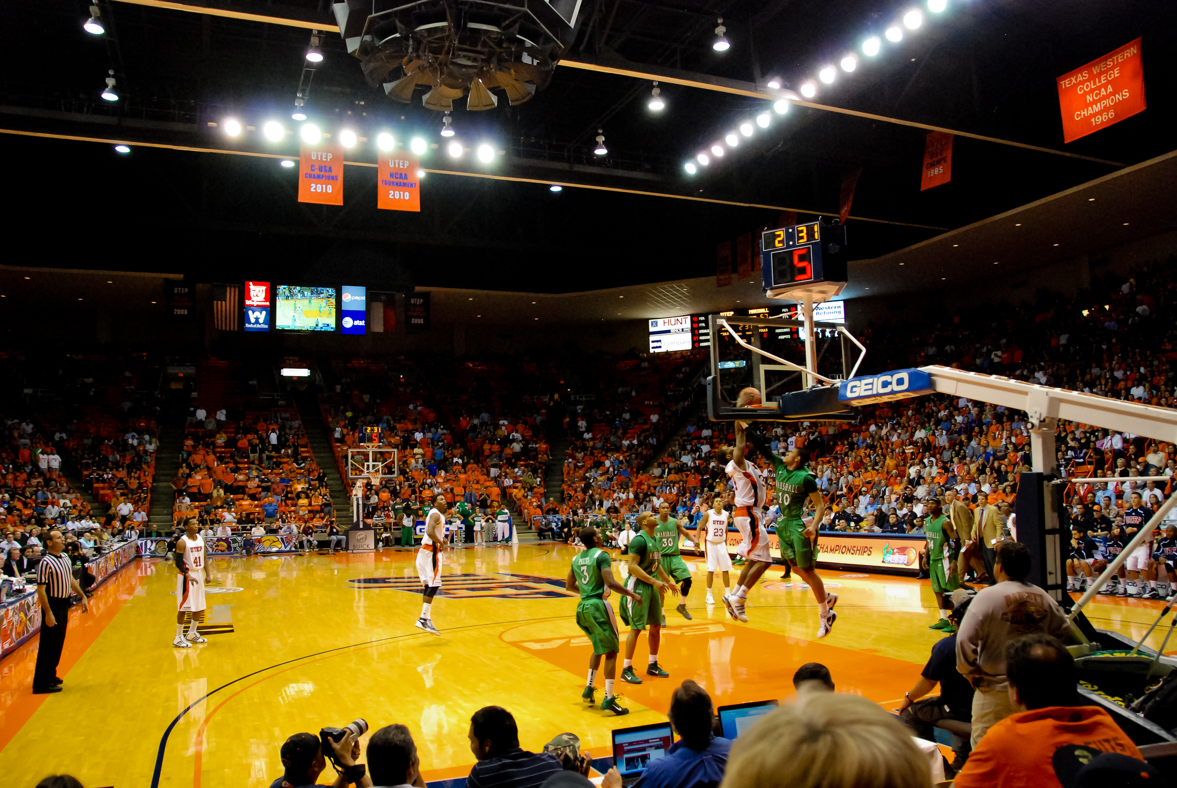 The interior of the Don Haskins Center on the campus of the University of Texas at El Paso (UTEP). Jeremy Williams of UTEP (#34 in white) dunks over Dago Pena of Marshall (#10 in green) during a Conference USA Tournament game on March 10, 2011. Note the "NCAA Champions 1966" banner at top left; this honors the famed 1966 Texas Western Miners who defeated the all-white University of Kentucky for the national championship. Formerly called the Special Events Center, the Haskins Center has hosted numerous notable sporting and cultural events since it opened in 1977.